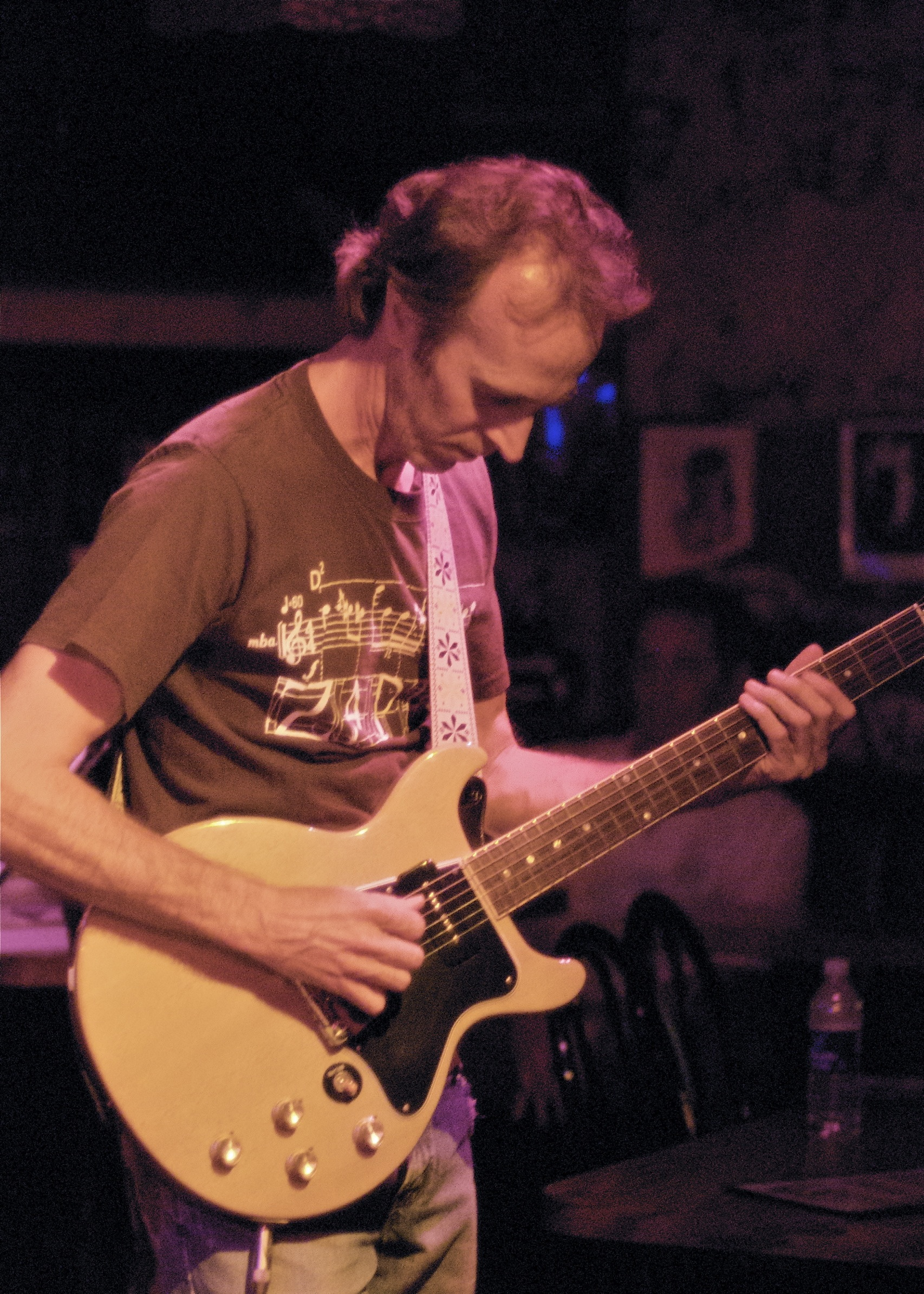 Jamie Kime performs at The Baked Potato, a jazz club in Los Angeles, California.